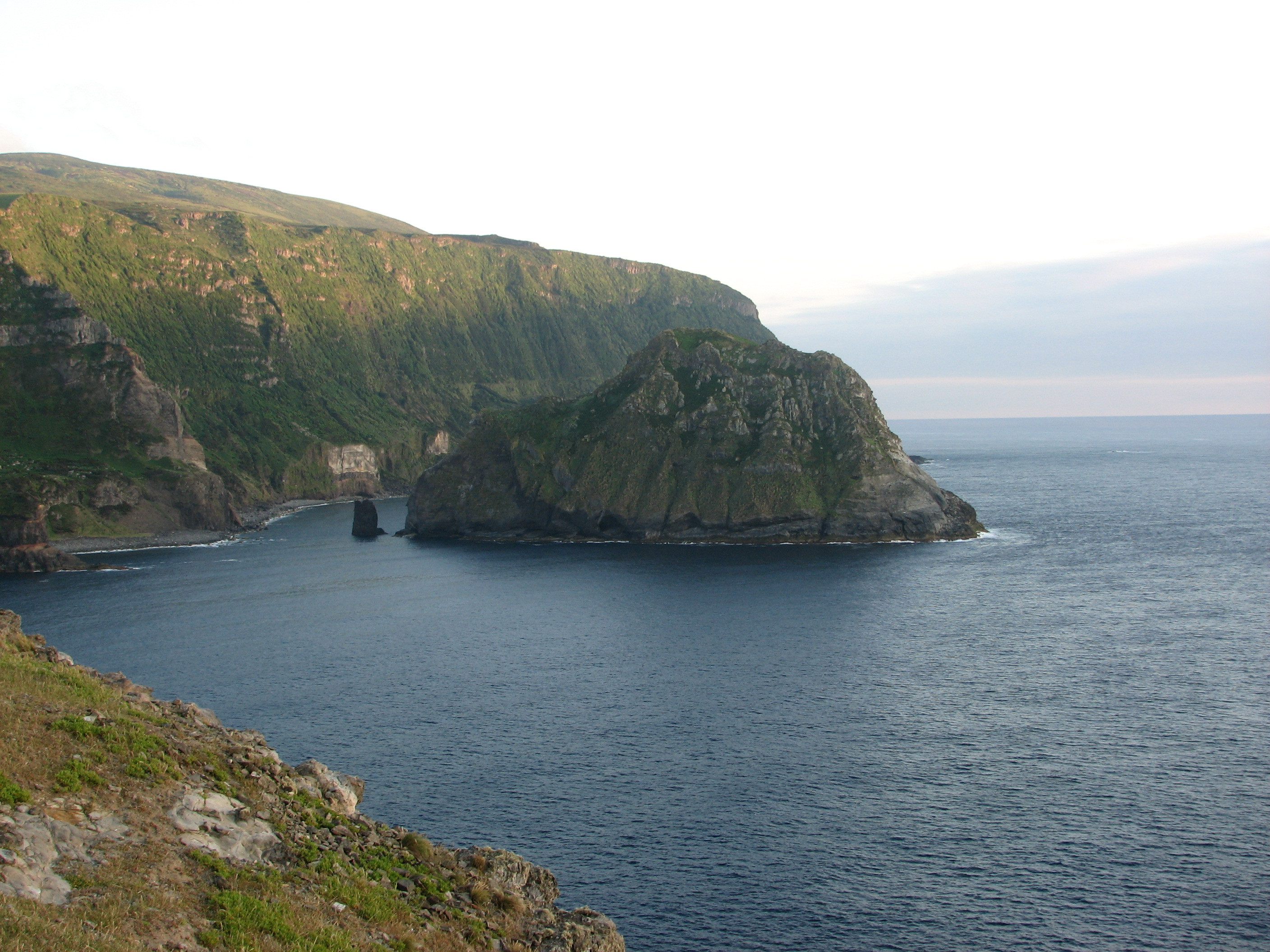 The islet of Maria Vaz (or Gadelha) at the NW coast of Flores, Azores, seen from Ponta do Albernaz.